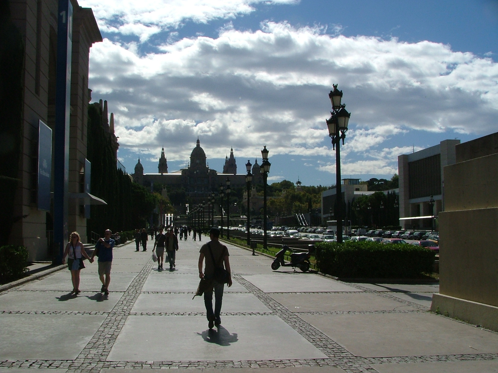 Palau Nacional and Fira de Barcelona buildings, seen from the Plaça de Espanya, Barcelona ,Catalonia,Spain